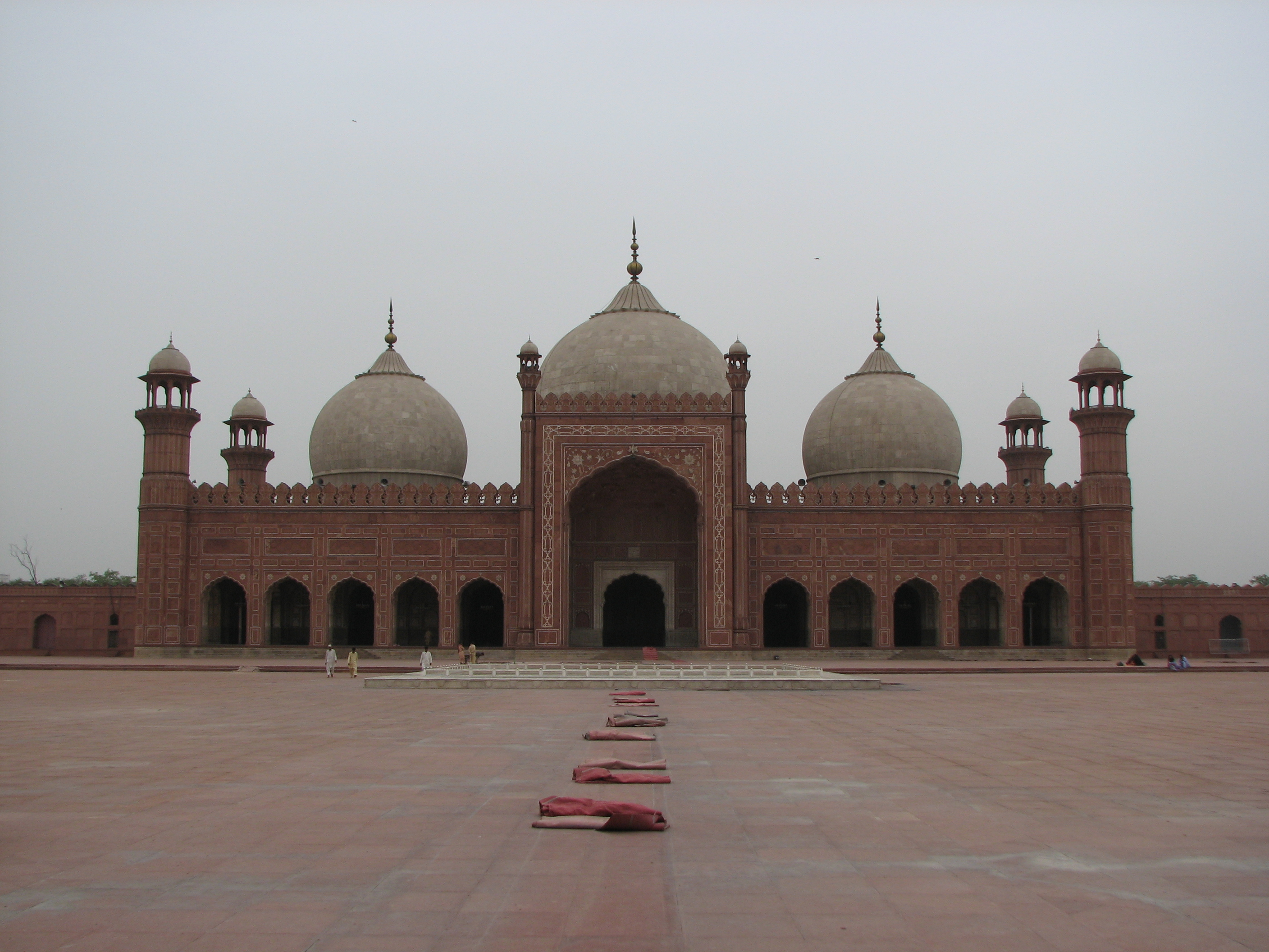 Badshahi Mosque (King’s Mosque) This is a photo of a monument in Pakistan identified as the PB-44